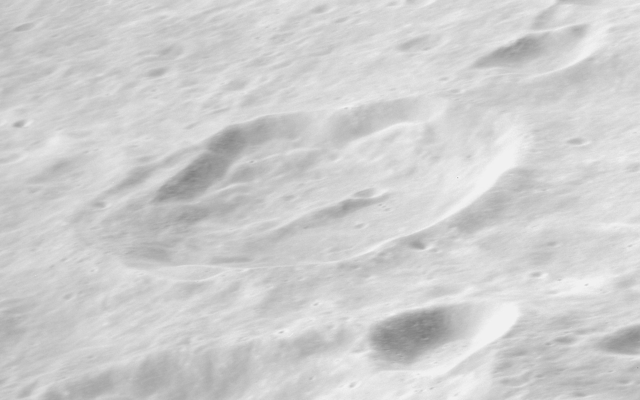 Oblique view of Urey crater, facing north, on the far side of the moon. Taken by Apollo 16 panoramic camera. Brightness and contrast adjusted from original.